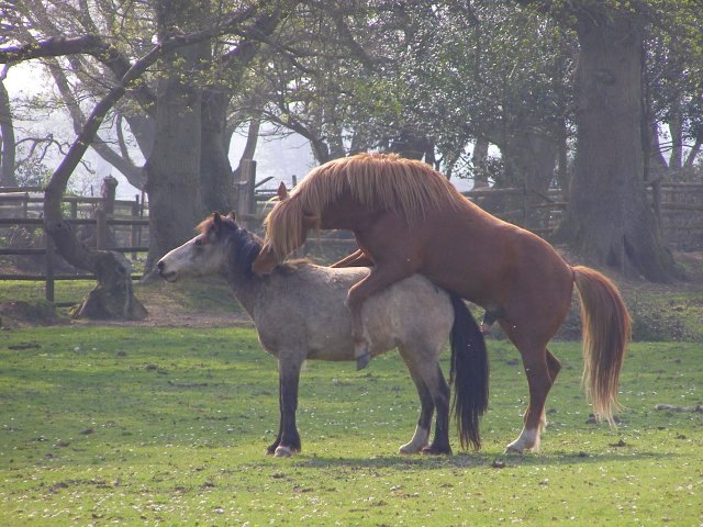 Stallion and mare, Pilley Allotments, New Forest The number of stallions 'turned out' on the New Forest is strictly limited. The objective of the Stallion Scheme is to reduce the number of foals and ensure those born were likely to be in good condition. During 2007 there are 39 stallions out on the Forest, and according to the official list the one shown here at Pilley Allotments is called "Matley Crusader". This mating activity was just a dry run, but caused a lot of fuss amongst the mares at this end of the old allotments.